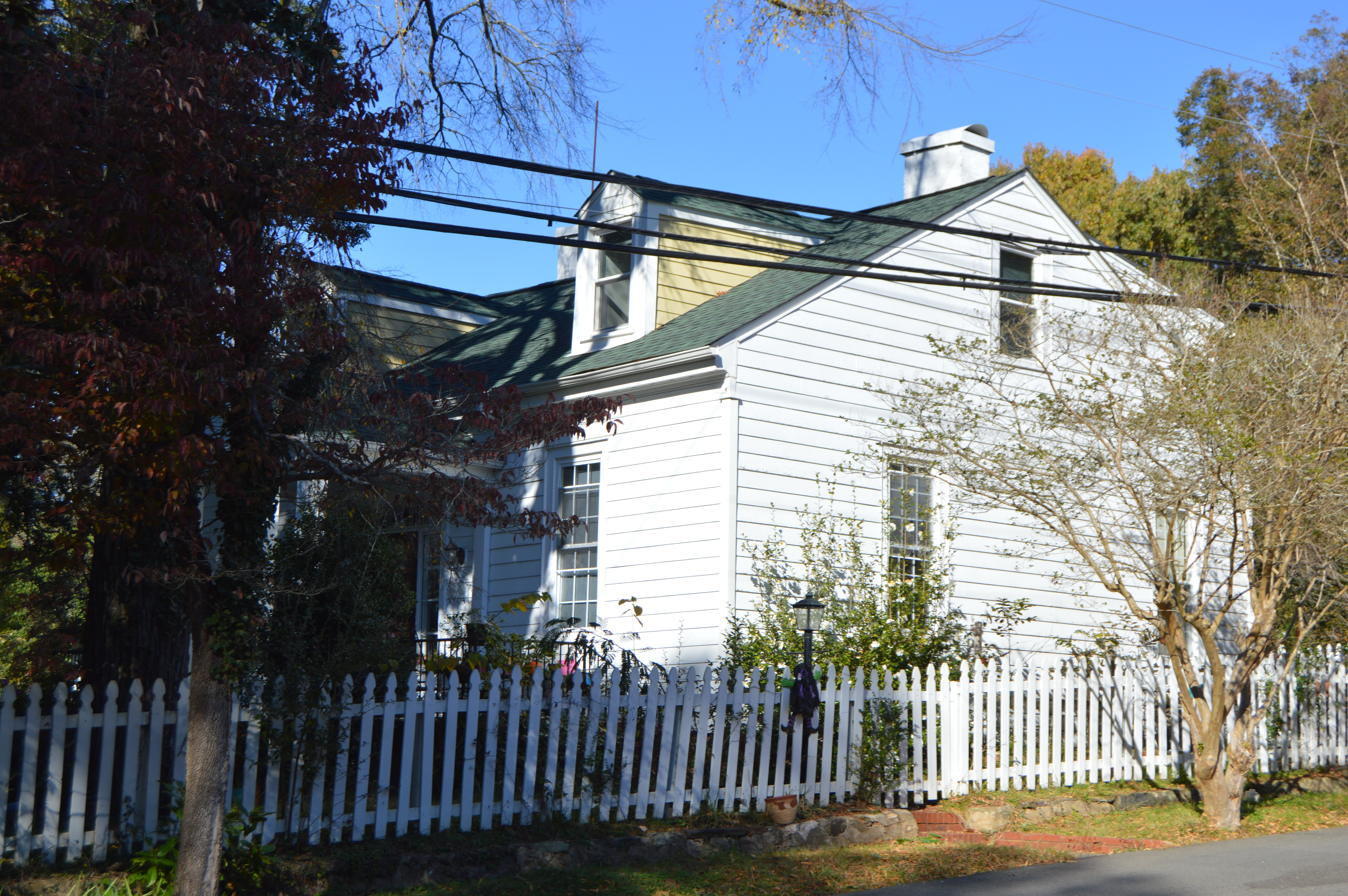 Front and eastern side of the Reid House, located at 200 W. Salisbury Street in Pittsboro, North Carolina, United States. Built in 1850, it is listed on the National Register of Historic Places, and it is part of a Register-listed historic district, the Pittsboro Historic District.